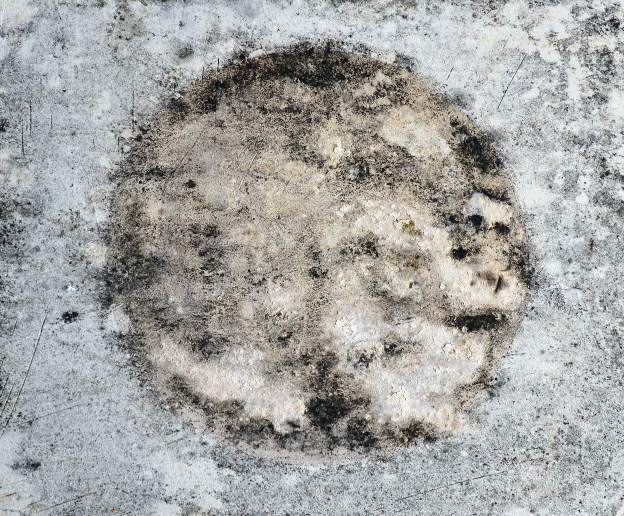 Work of art created using mold(fungus)